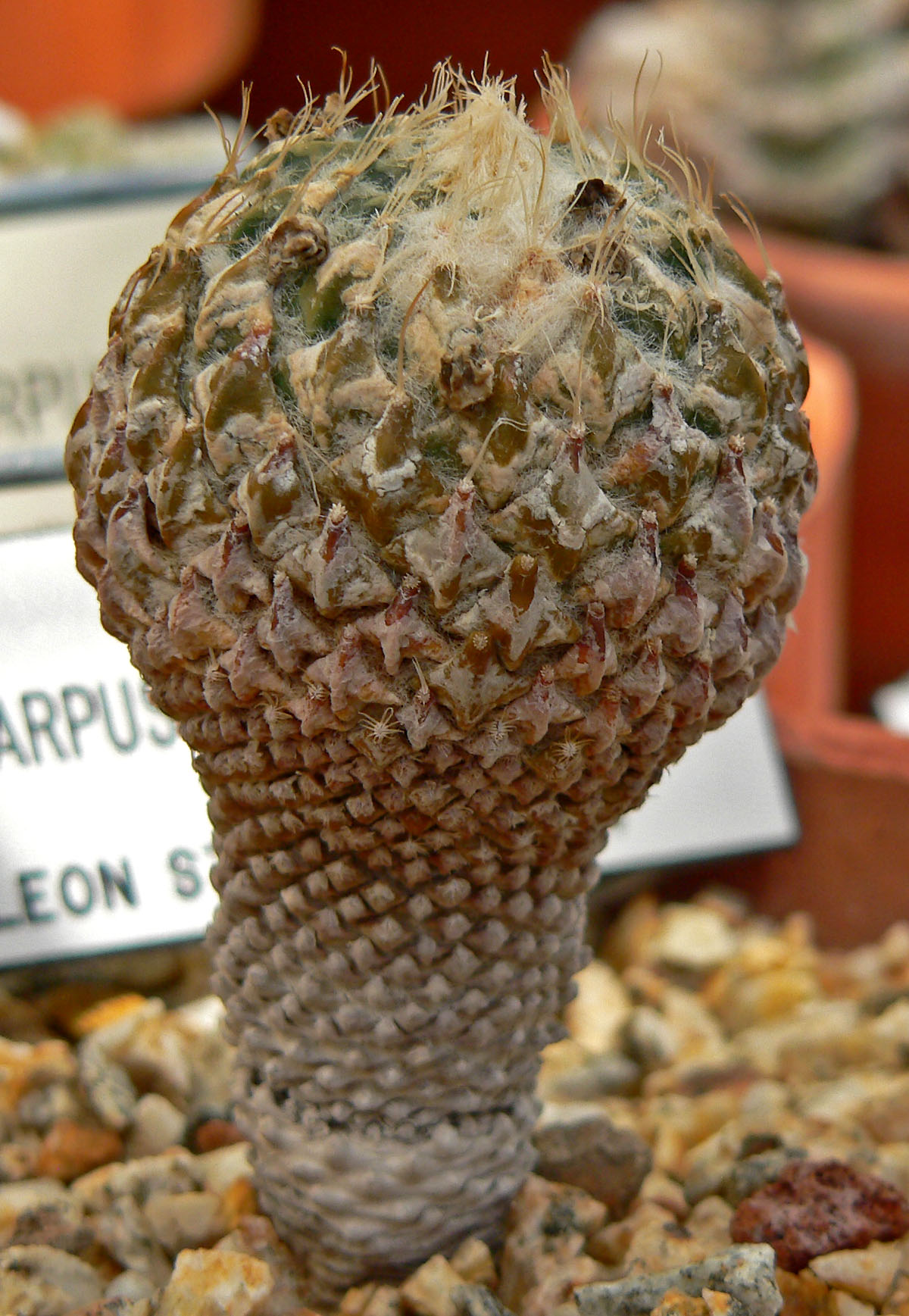 Pelecyphora strobiliformis at the University of California Botanical Garden, Berkeley, California